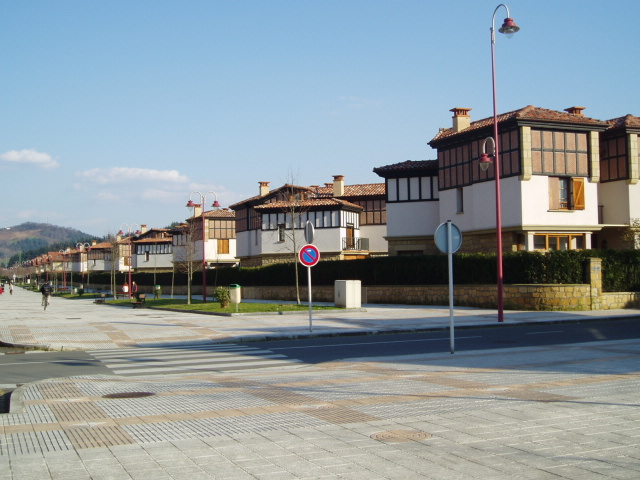 Houses at Aritzbatalde district in Zarautz (Gipuzkoa).